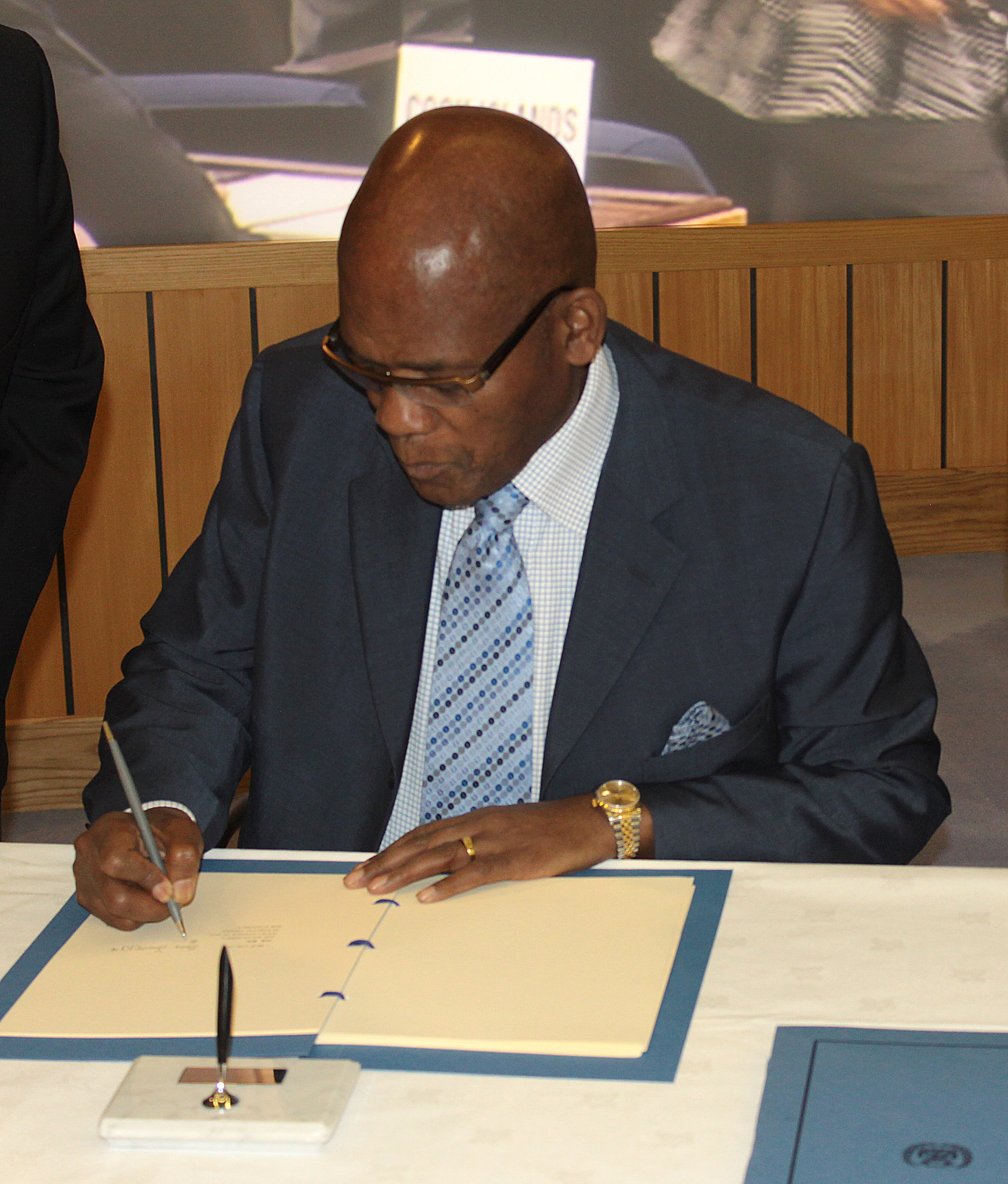 Minister Zola Skweyiya signing of the Djibouti Code of Conduct by South Africa